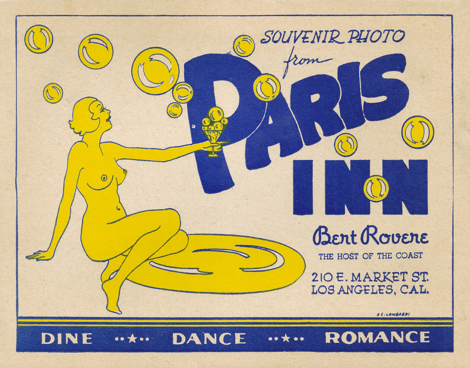 Souvenir photo cover, Paris Inn, Los Angeles